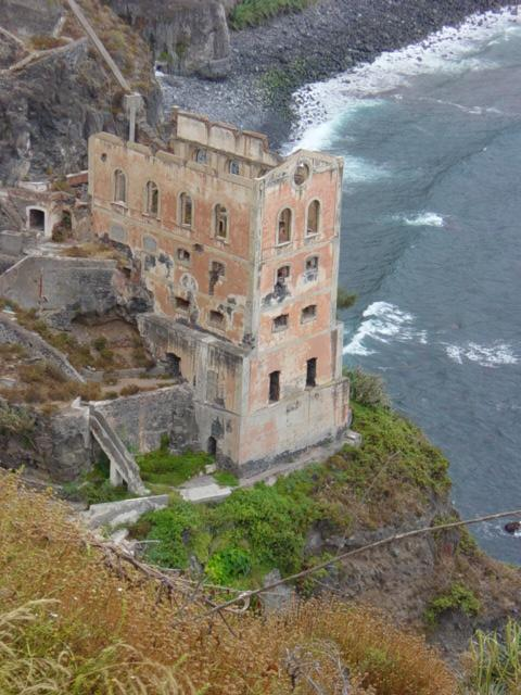 Water elevator of Gordejuela (Los Realejos, Tenerife). Canary Islands, Spain.